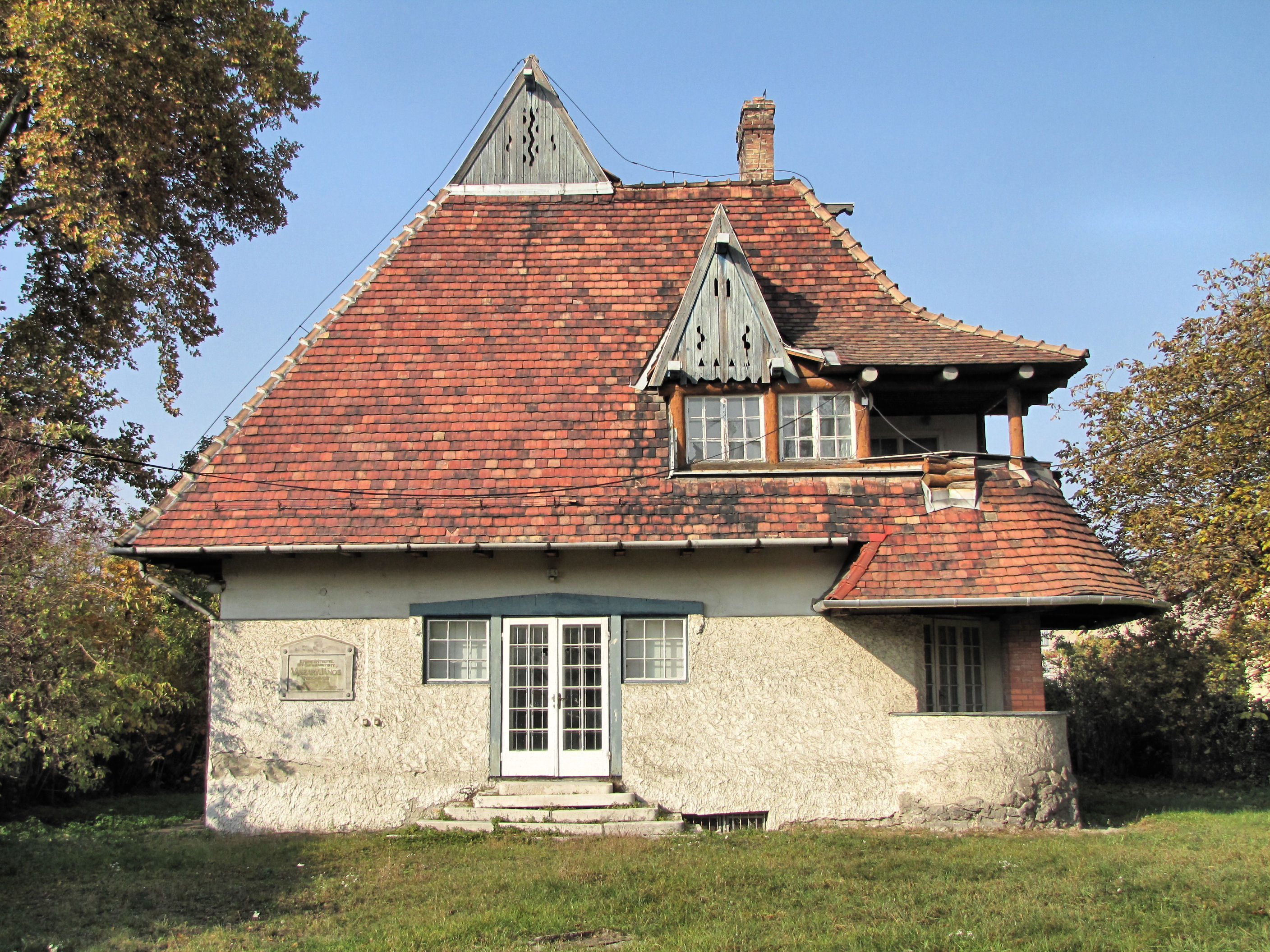 Villa of János Vaszary, Tata, Hungary. Listed ID 6450. Architect: Ede Wigand Torockai.